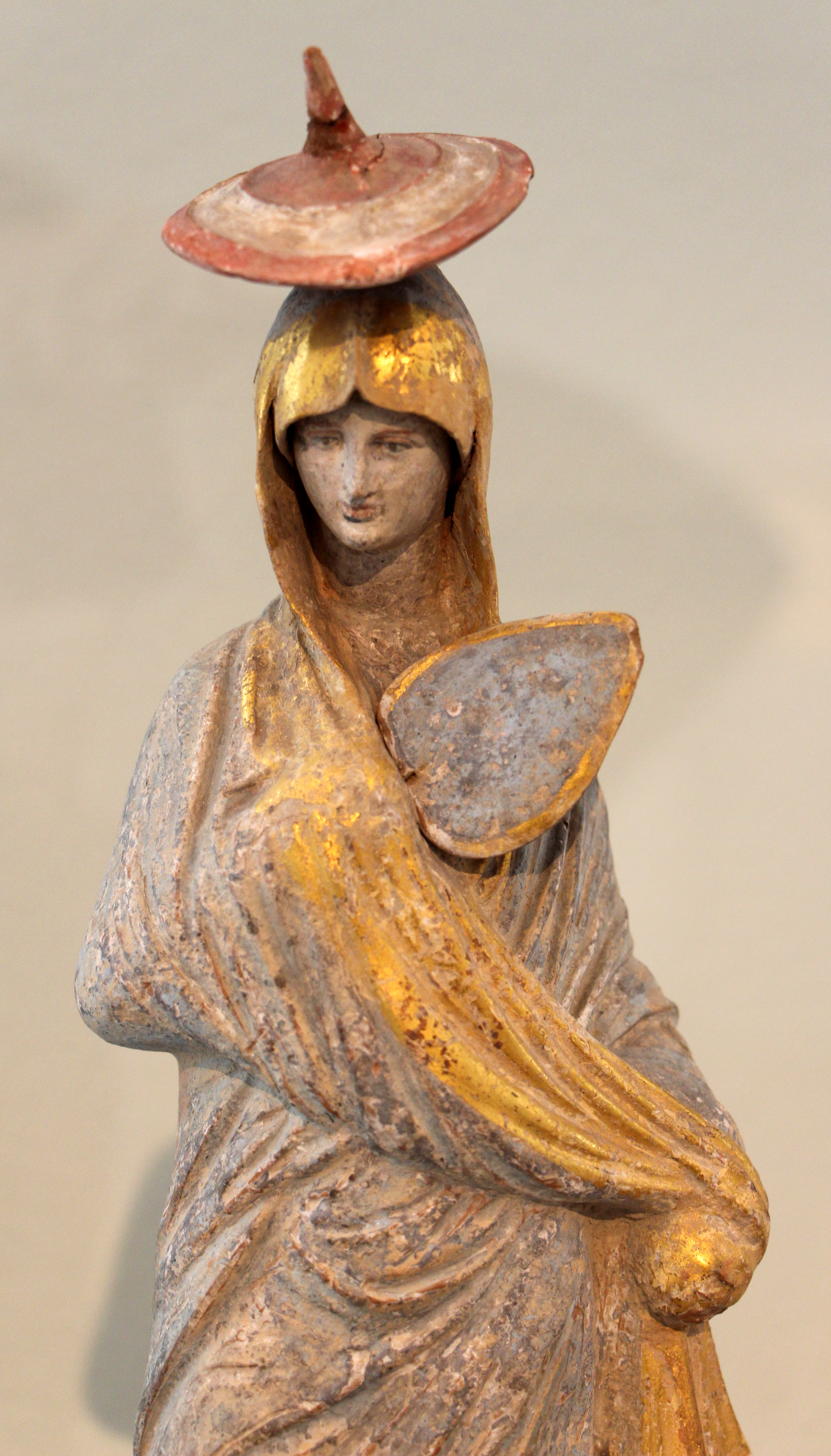 Ancient Greek terracotta in the Antikensammlung Berlin